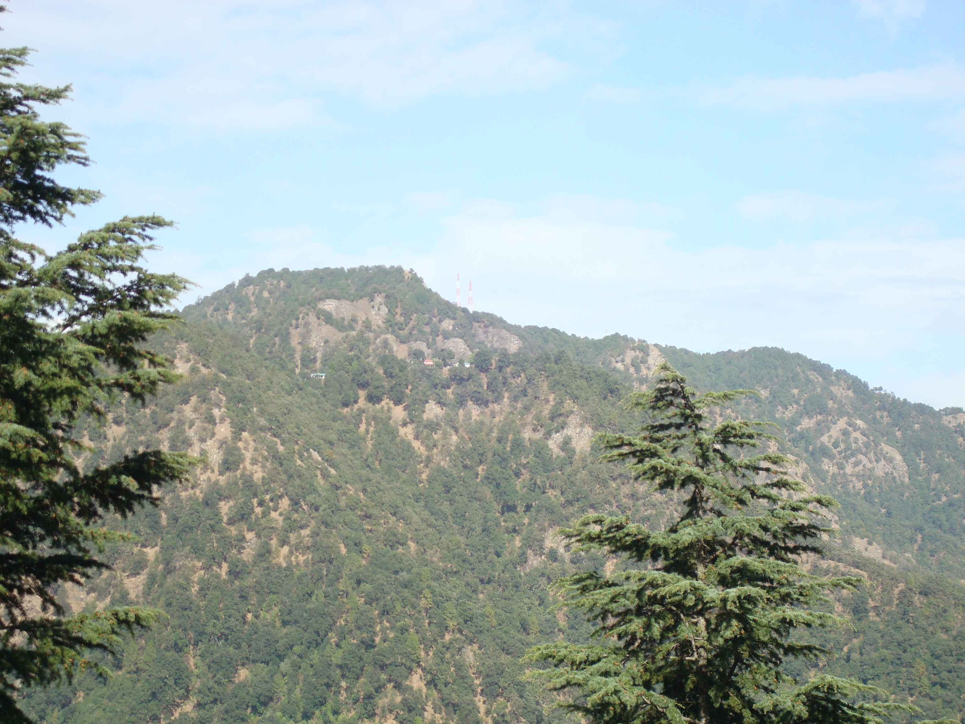 It is the photo of a hill in Ramgarh, Uttarakhand, India.